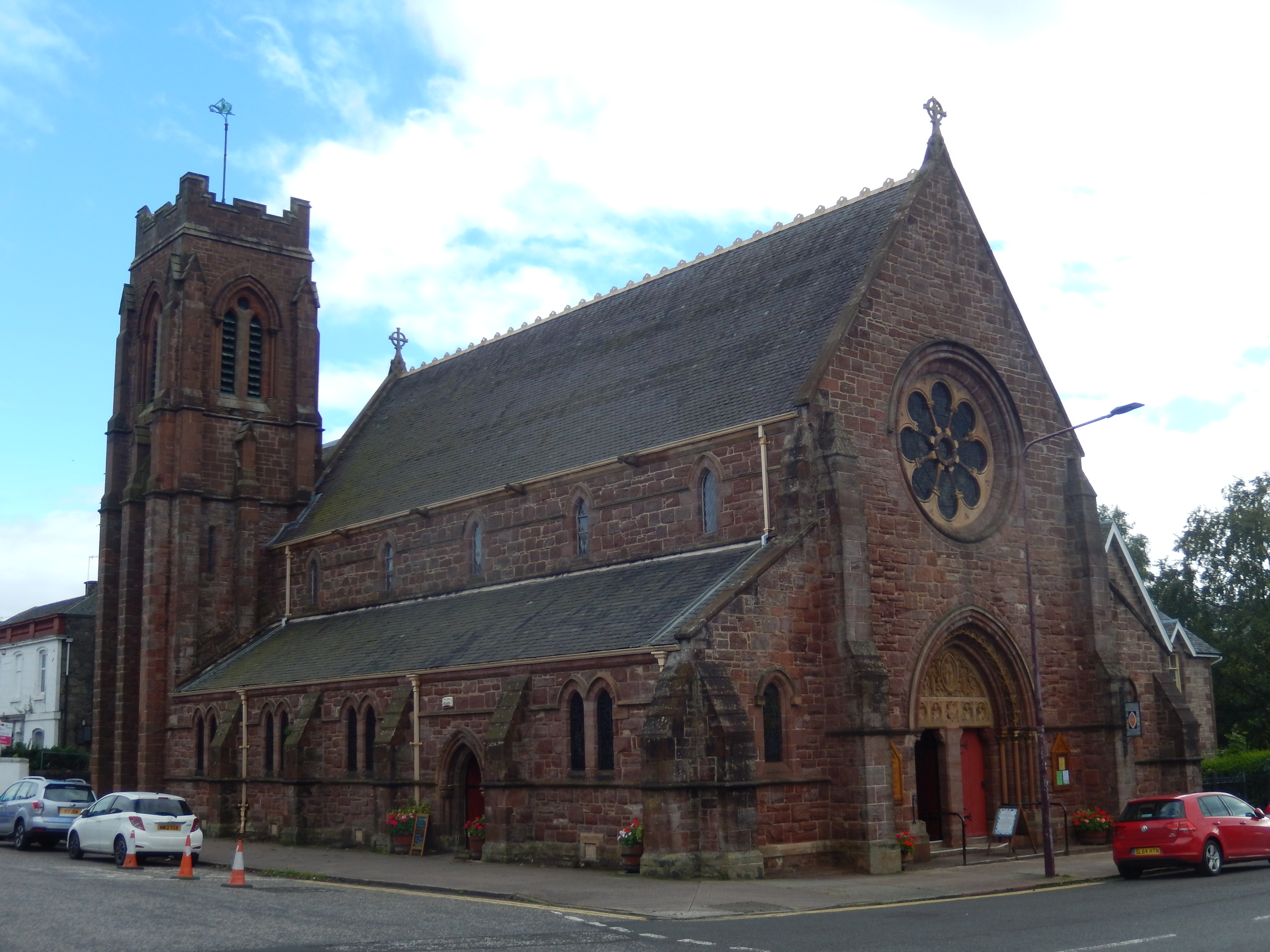 Helensburgh, St Michael's Church. Photo taken from the corner of William Street and West Princes Street. Wikidata has entry Q17571981 with data related to this item.